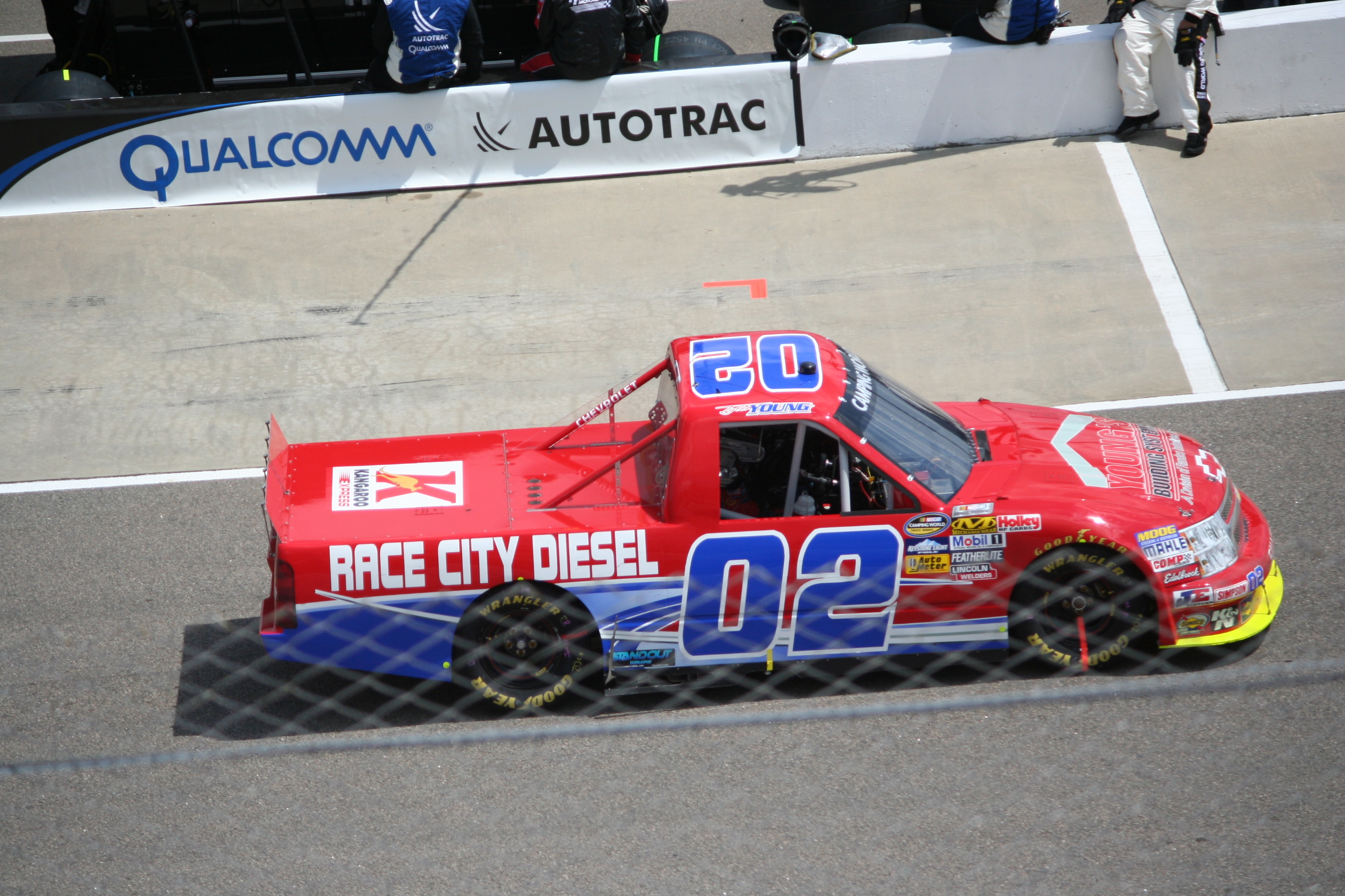 Tyler Young's No. 02 Chevrolet at Rockingham Speedway during the 2012 Good Sam Carolina 200.